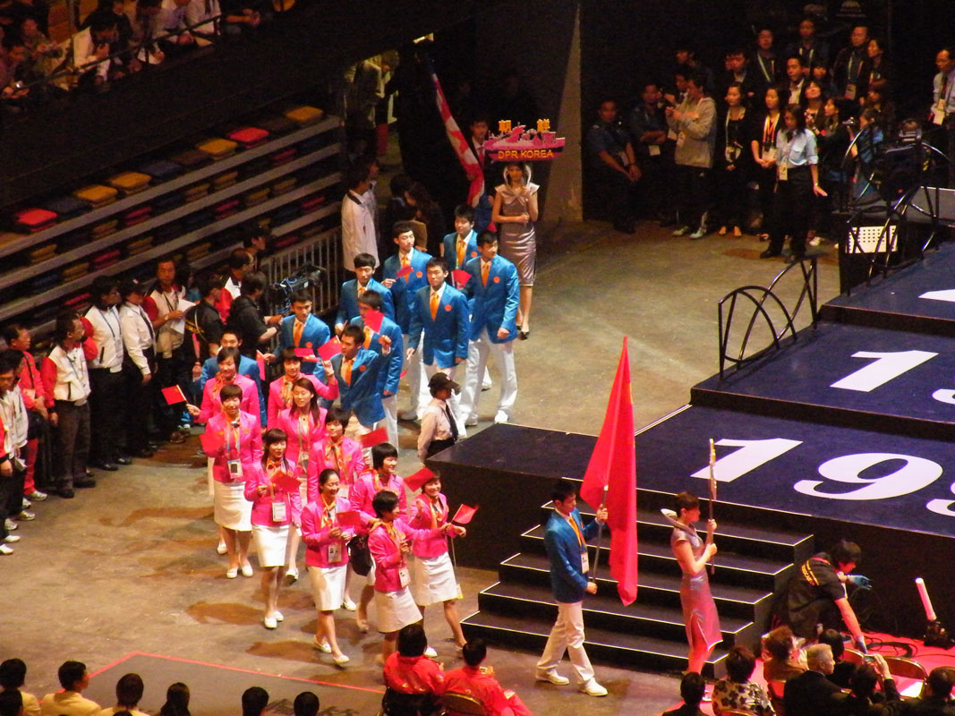 2009 East Asian Games Closing Ceremony - China delegation